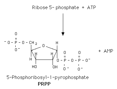 Reaction of ribose-5-phosphate + ATP